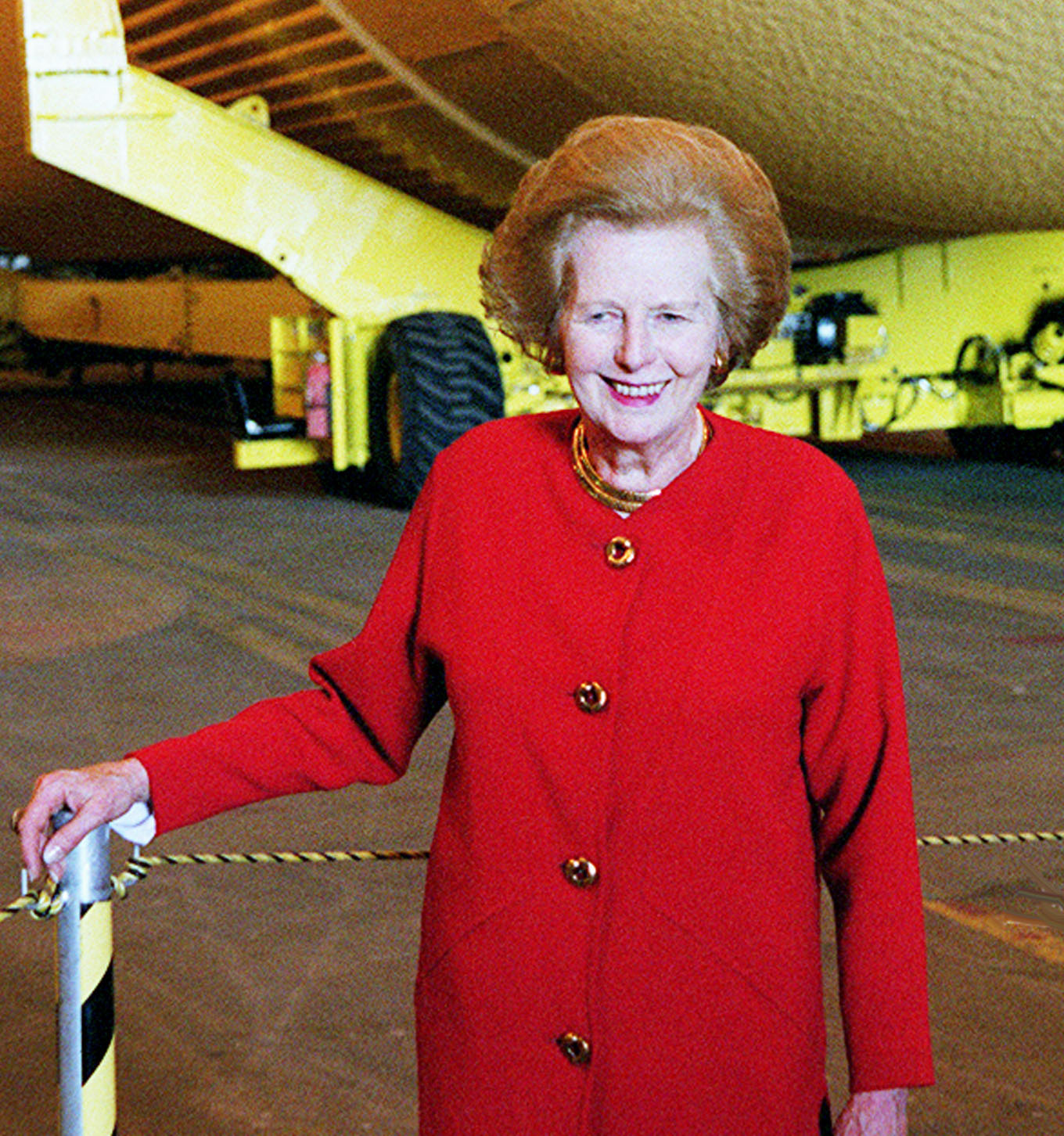 Margaret Thatcher, former Prime Minister of Great Britain, in the Vehicle Assembly Building while touring the Kennedy Space Center.